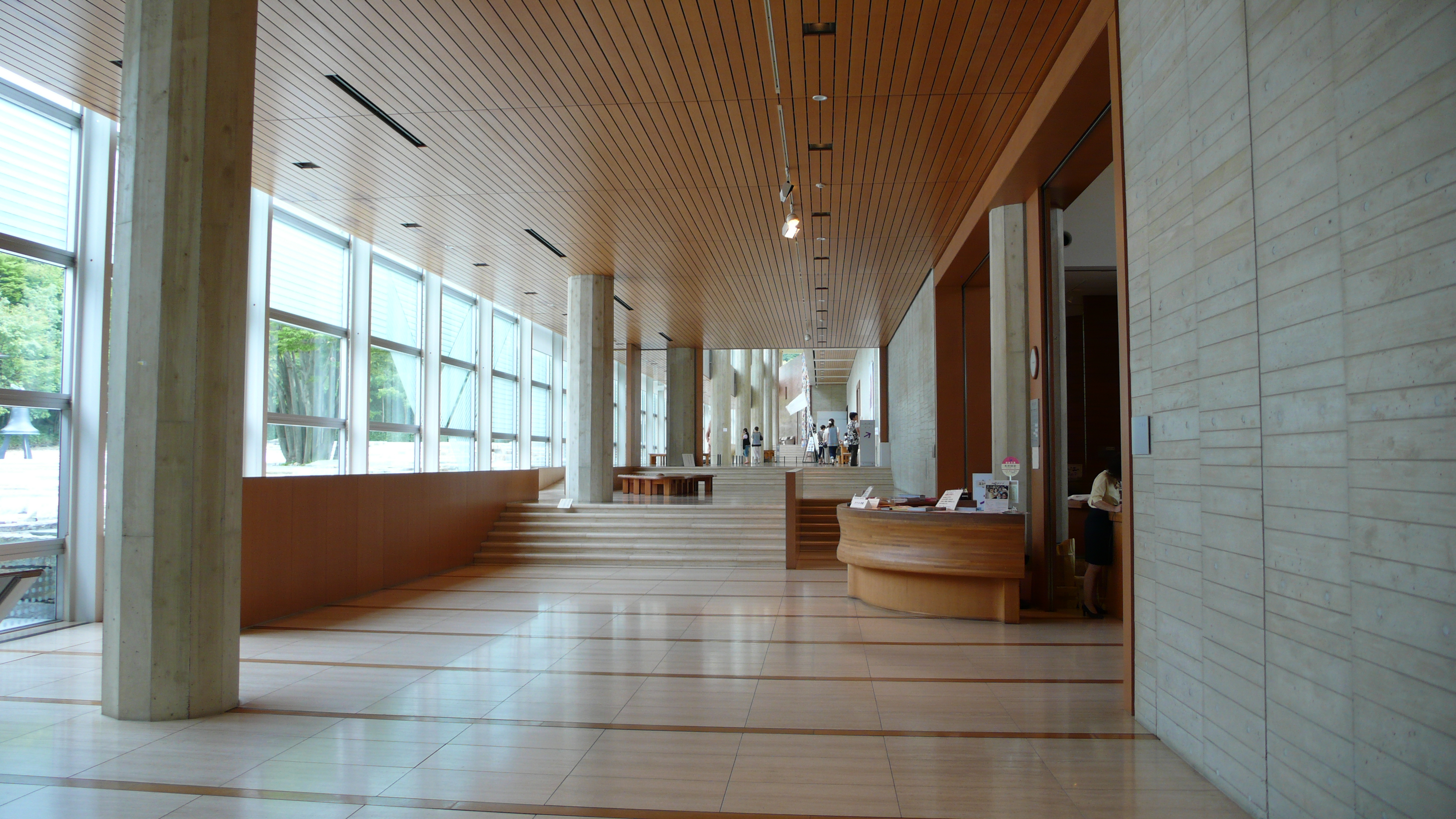 Koriyama City Museum of Art in Koriyama, Fukushima pref., Japan.